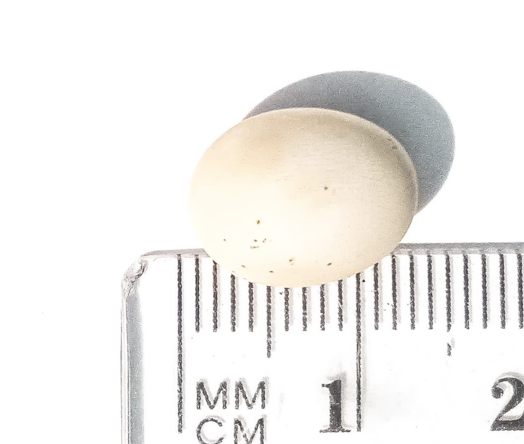 Anolis marmoratus